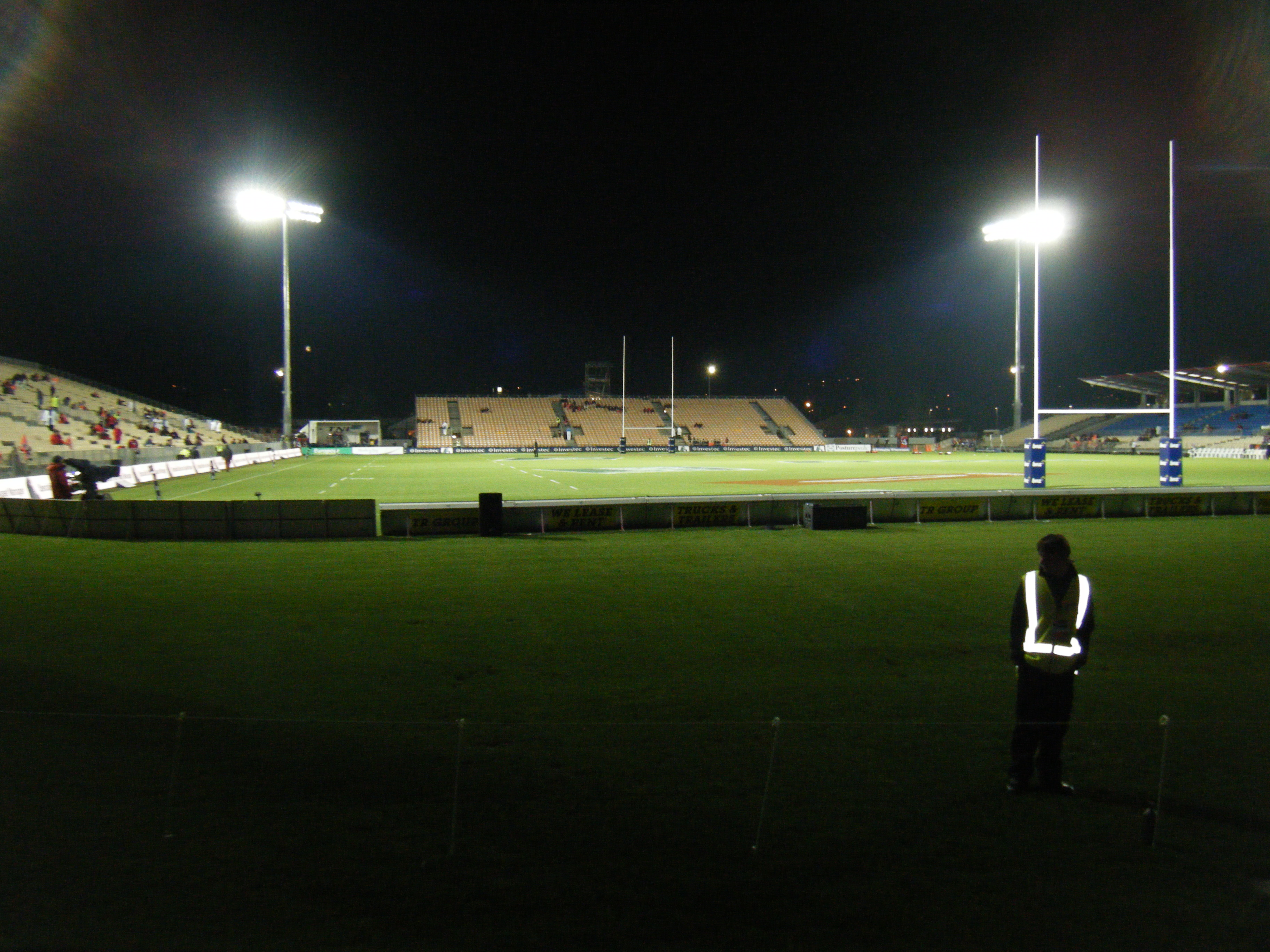 This is a stadium in Nelson, New Zealand, that is used mainly for rugby matches and is one of the home grounds of the itm cup team, Tasman Makos.